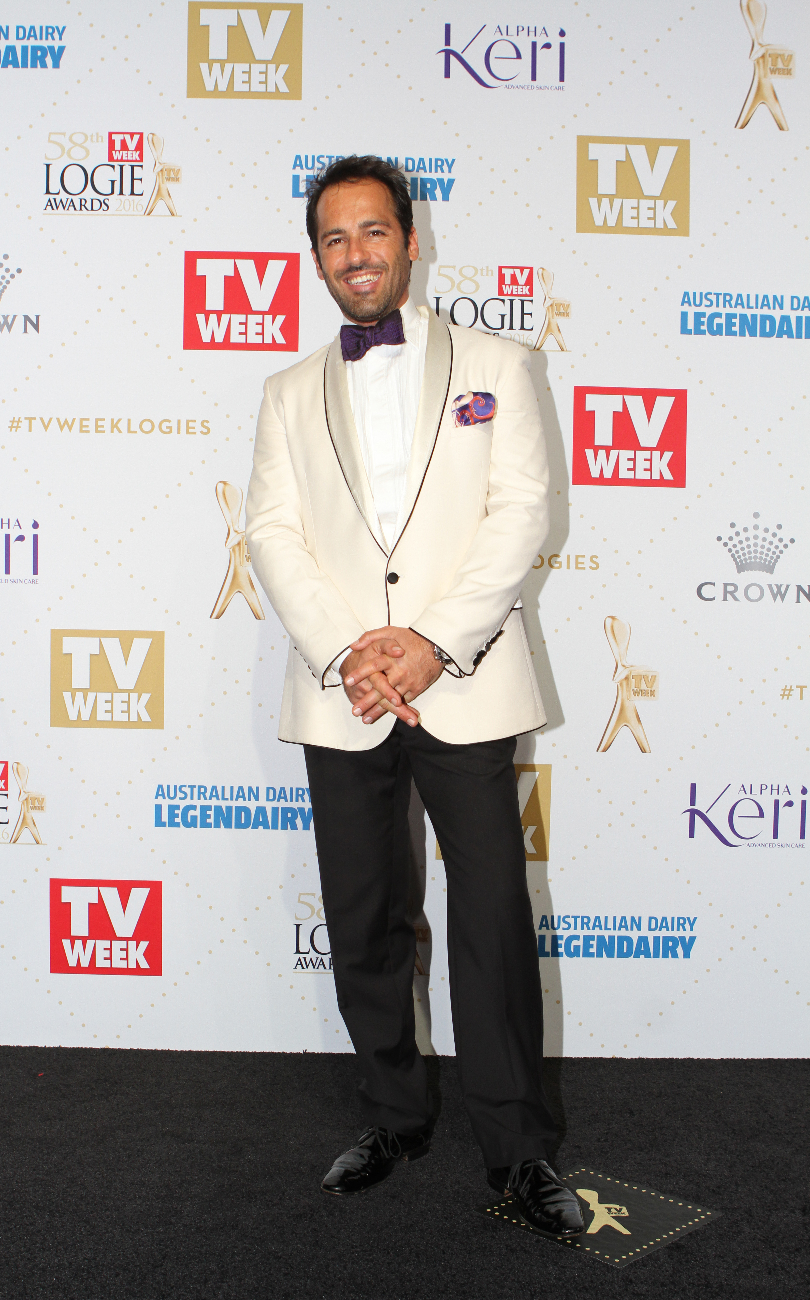 Alex Dimitriades arrives at the 2016 TV Week Logie Awards